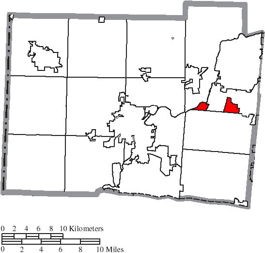 Map of the municipal and township boundaries of Butler County, Ohio, United States, as of the 2000 census, with the location of Lemon Township highlighted. Township borders are shown only in unincorporated areas in order to differentiate incorporated and unincorporated areas more clearly.